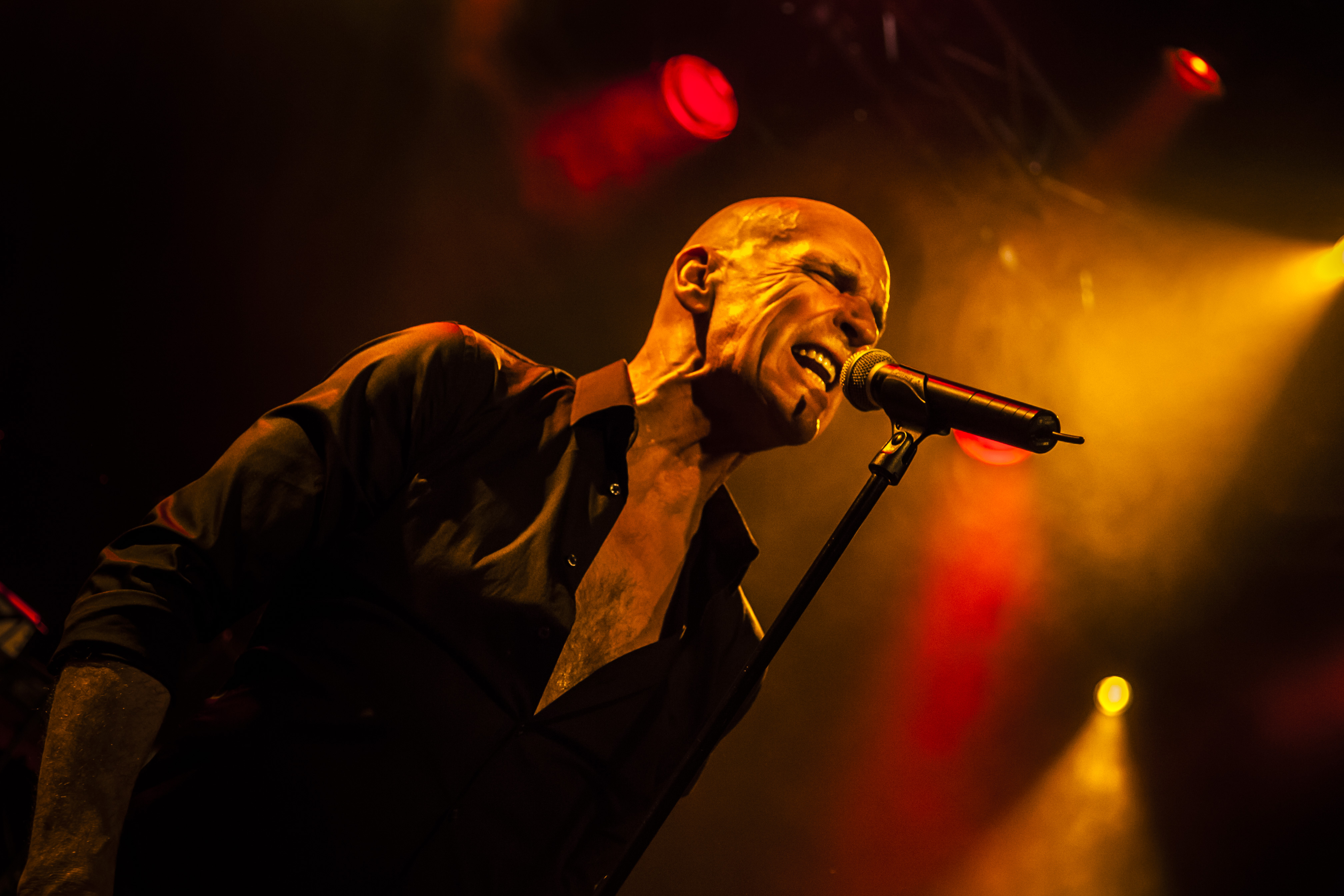 Michael Sadler from the canadian group SAGA in a gig in stockholm 2012